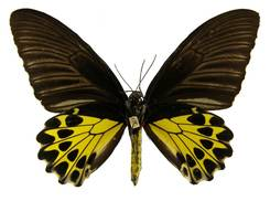 Troides helena male